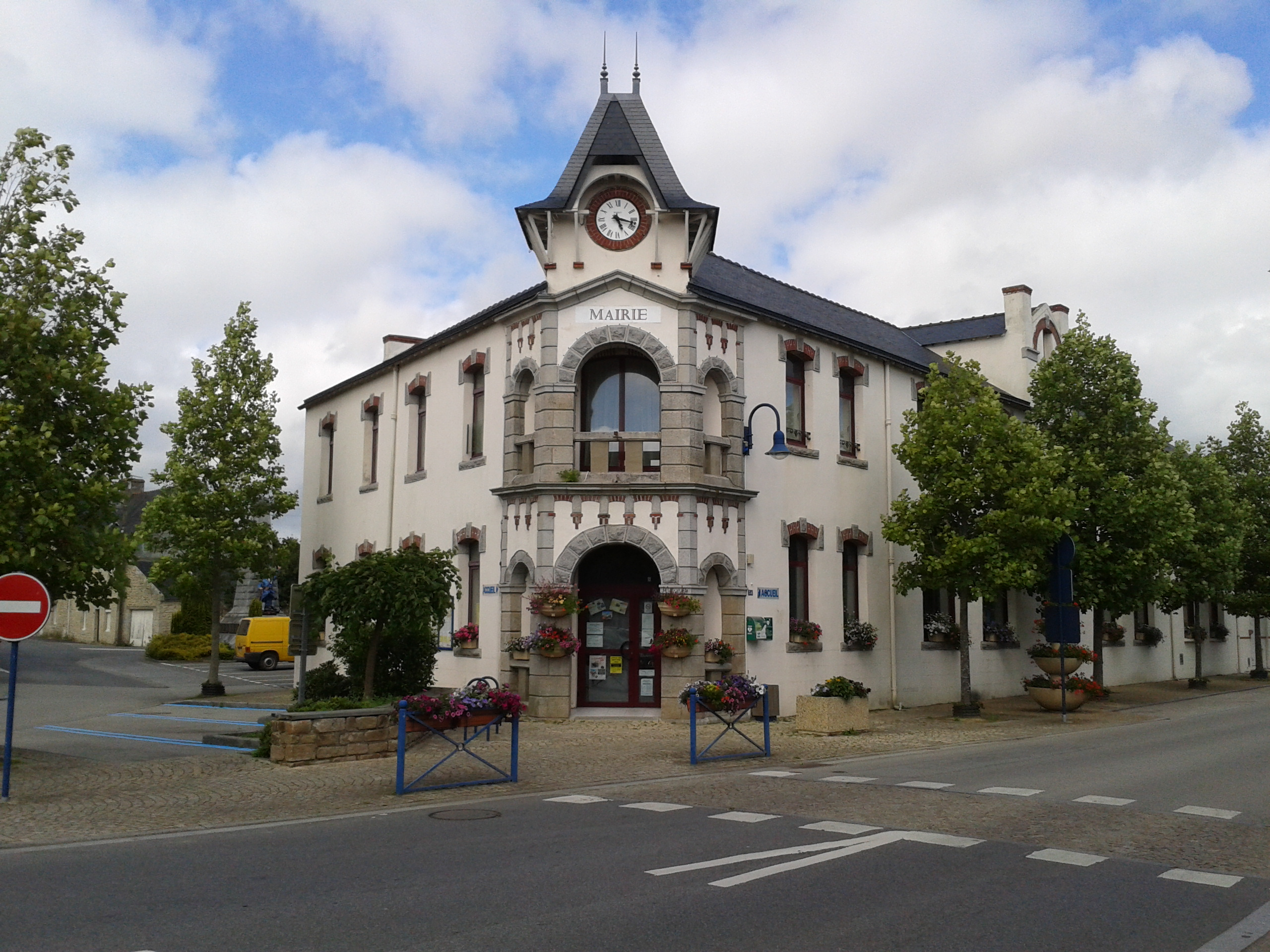 Belz (Morbihan), town hall